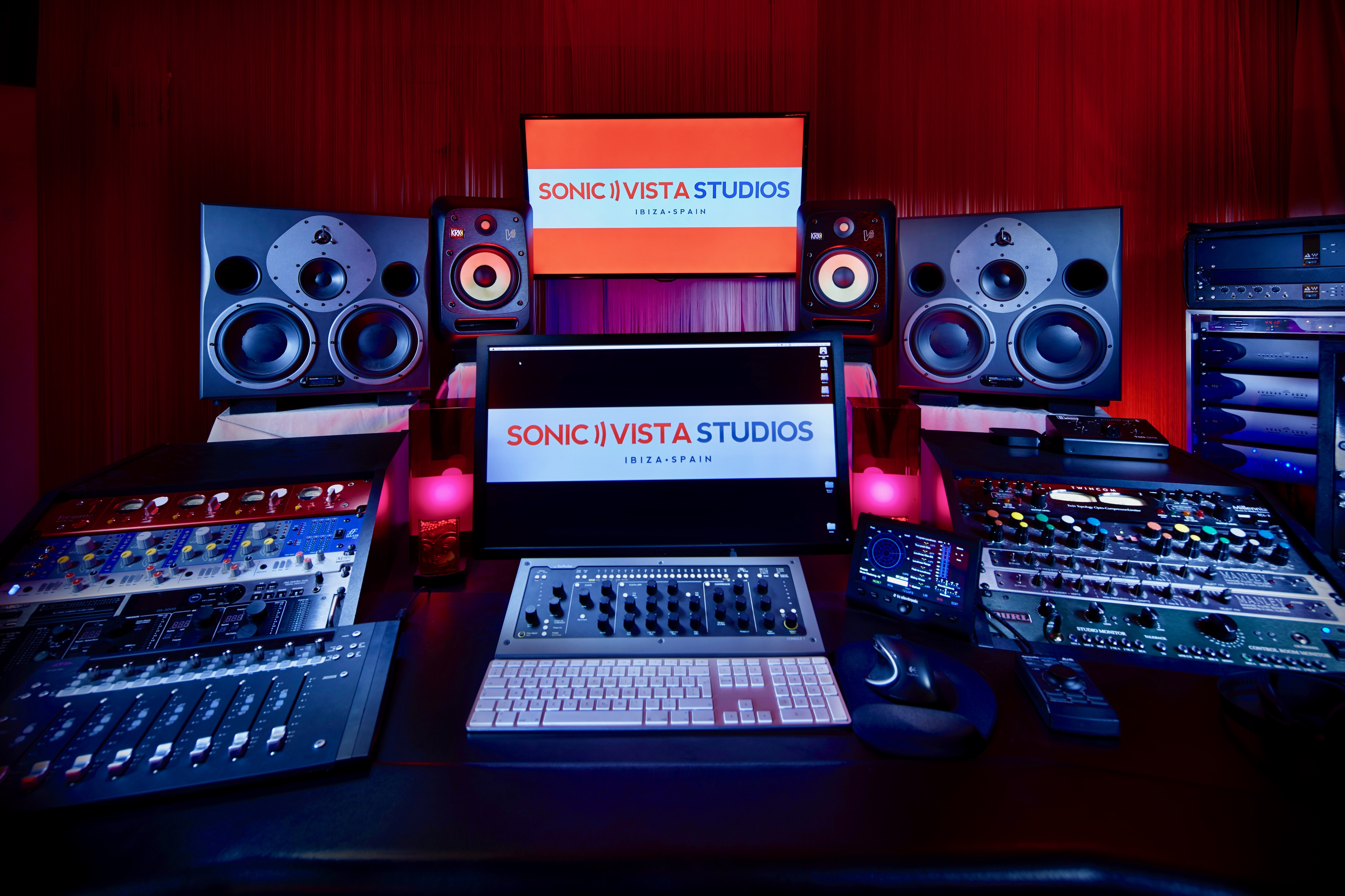 This is a photo of the main desk in studio A at Sonic Vista Studios in Ibiza, Spain.